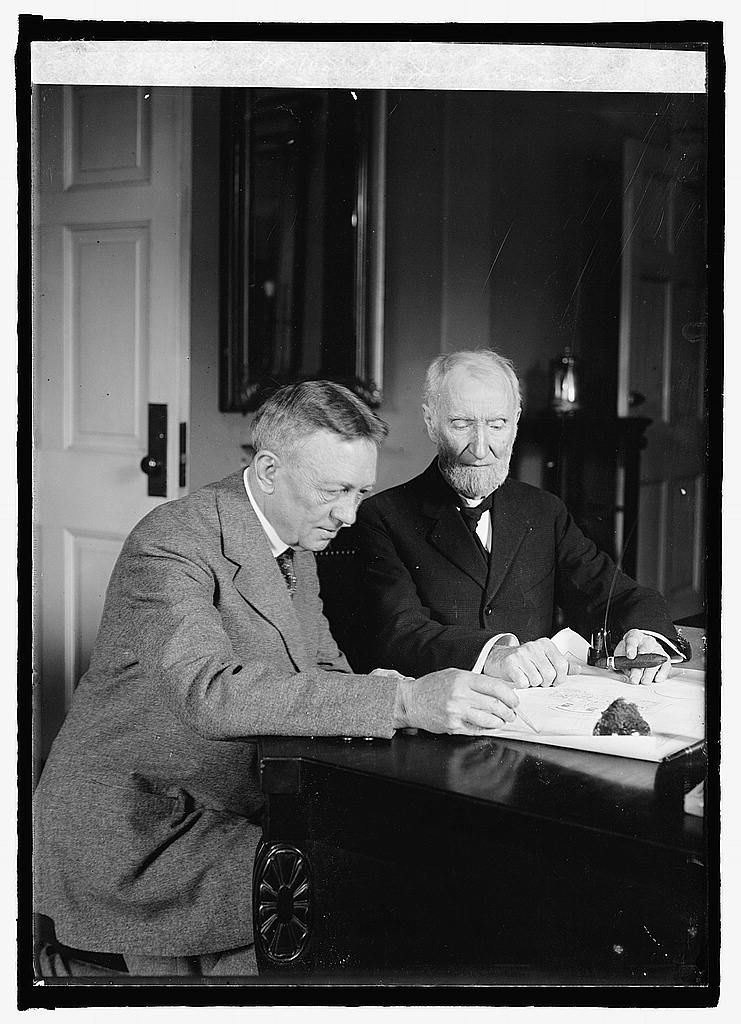 Title: Elliott Wood & Joe Cannon Abstract/medium: 1 negative : glass ; 5 x 7 in. or smaller